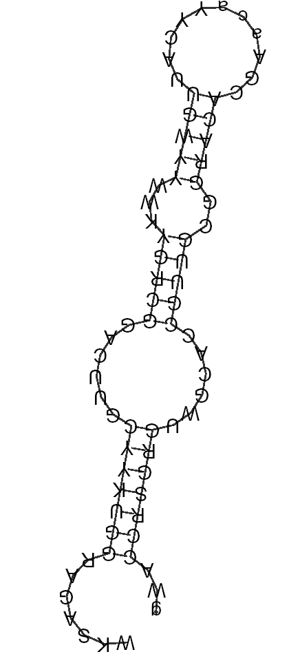 RNA secondary structure of TB6Cs1H3 generated by the WAR server( It is the consensus structure from 8 Trypansomatid species -Leishmania major, Leishmania infantum, Leishmania braziliensis, Trypanosoma brucei, Trypanosoma brucei gambiense, Trypanosoma cruzi, Trypanosoma congolense, Trypansoma vivax